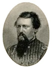 Illustration in History of Iowa From the Earliest Times to the Beginning of the Twentieth Century